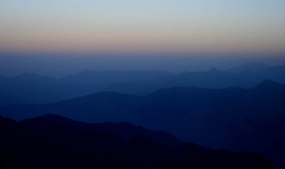 It was just 5.40 a.m. & we have just reached at a point, after starting from Tila Lotani (12500 ft.) at 5 a.m., where we got a view on the western side. It was lovely & surreal. But it kept me wondering how we are getting the feeling of the horizon at western side in the morning. I have captured a celestial delight which recurrs daily, but is rarely seen by us & less captured in pictures.The feeling of the horizon on the western side in the morning is actually the SHADOW of our planet Earth seen in the sky. When the Sun rises in morning on the eastern side, a shadow of our earth is seen on the side opposite to the Sun, i.e.-the western side. This shadow is seen as bluish purple band which I have unknowingly captured. Cheers & welcome to Astrophotography! Taken on way to Sar Pass Trek in Kullu District of Himachal Pradesh, India.